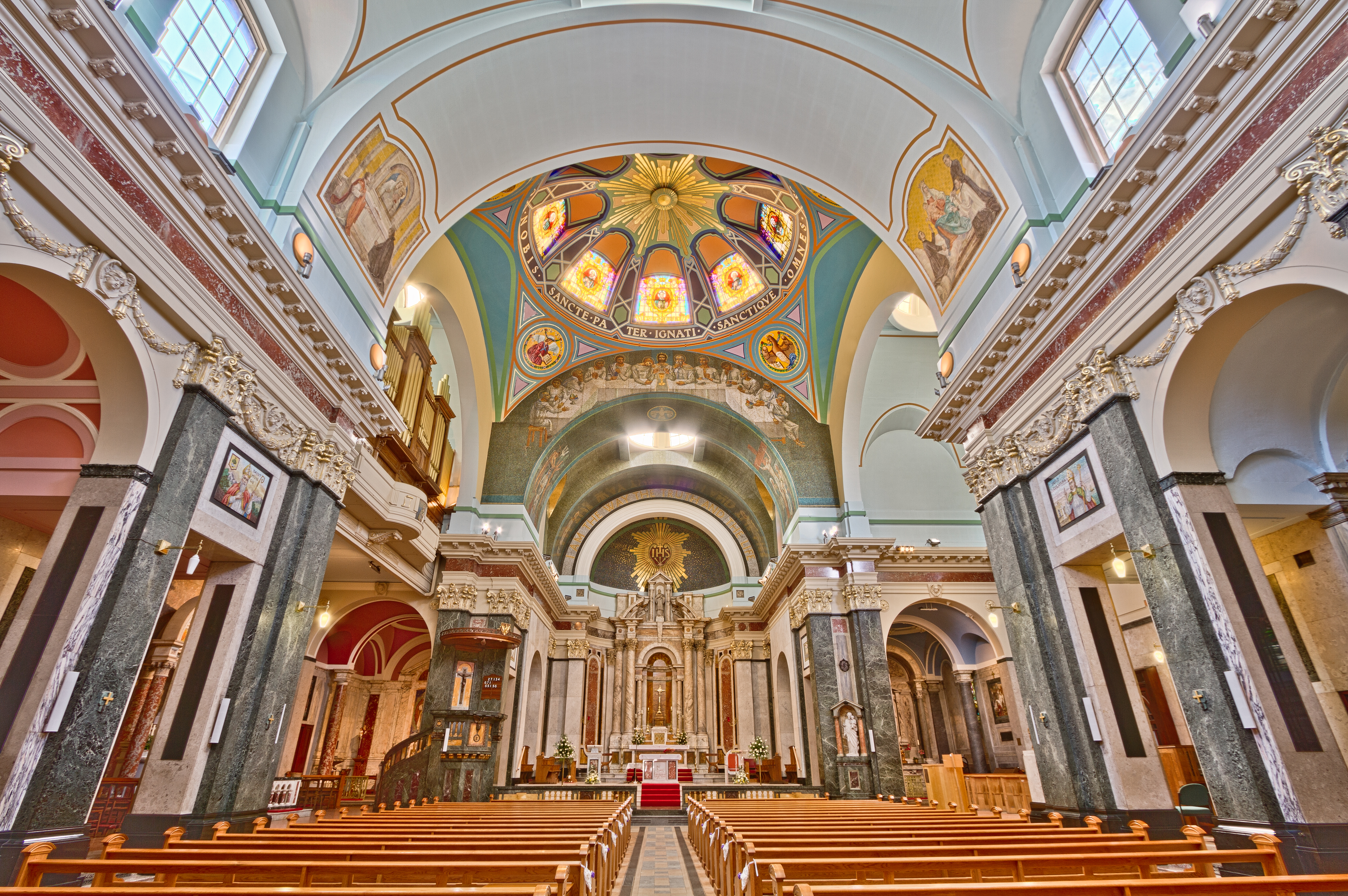 Here is a photograph taken from inside St Aloysius church. Located in Glasgow, Scotland, UK.